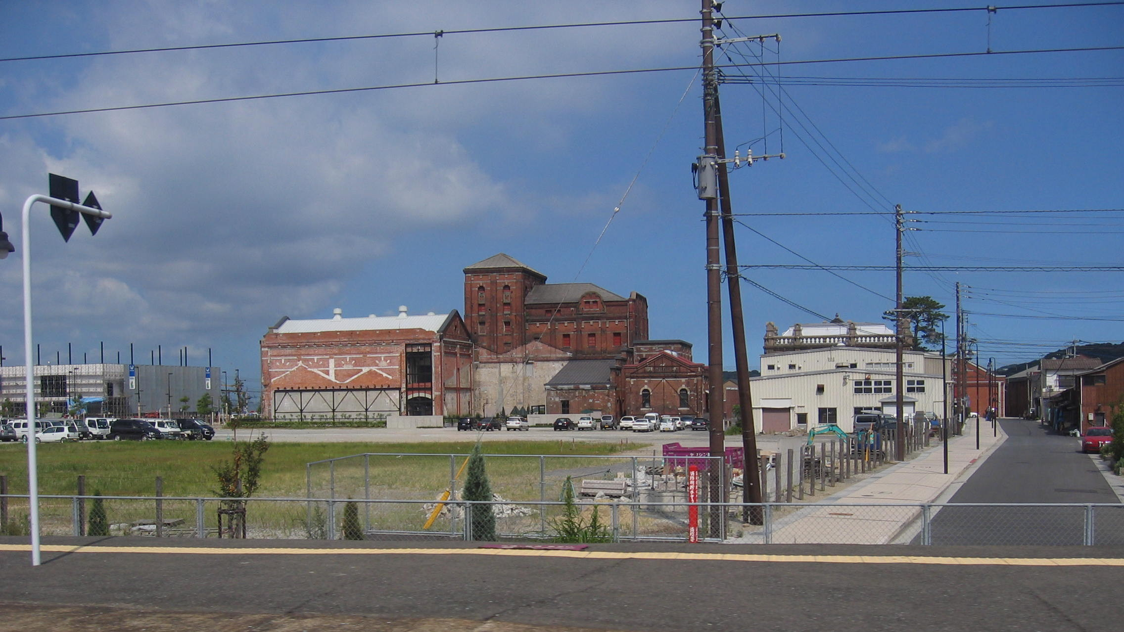 A closed beer brewery in Moji, Fukuoka prefecture. It was built in 1913, and closed in 2000.